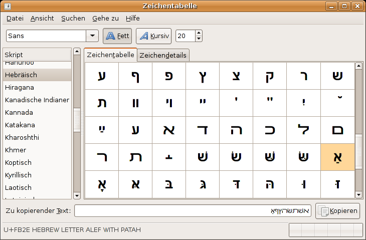 The Gnome character map showing Hebrew letters. Some are selected for copying. German Ubuntu Linux 6.06.